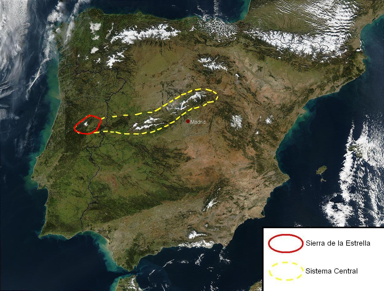 Map of the Estrela mountain range, in Portugal.